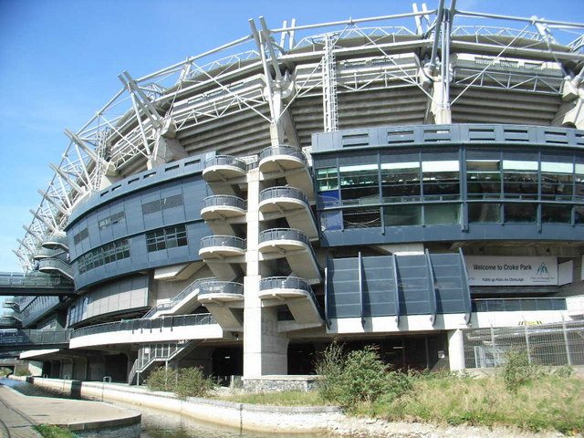 Croke Park Stadium from the Royal Canal